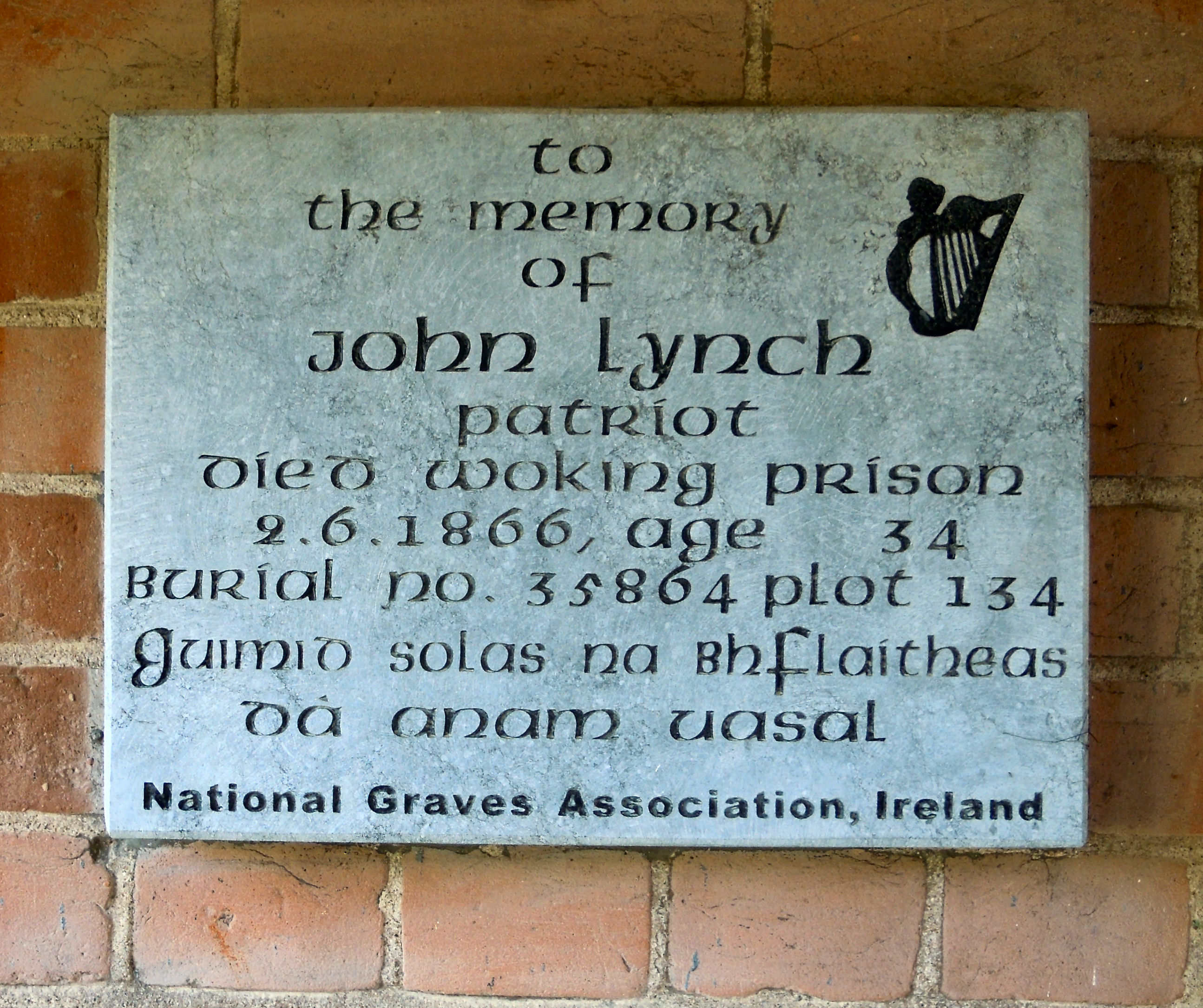 Memorial Plaque to John Lynch on the Roman Catholic Chapel at Brookwood Cemetery